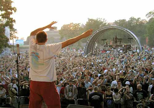 EXIT Festival 2003, Novi Sad.